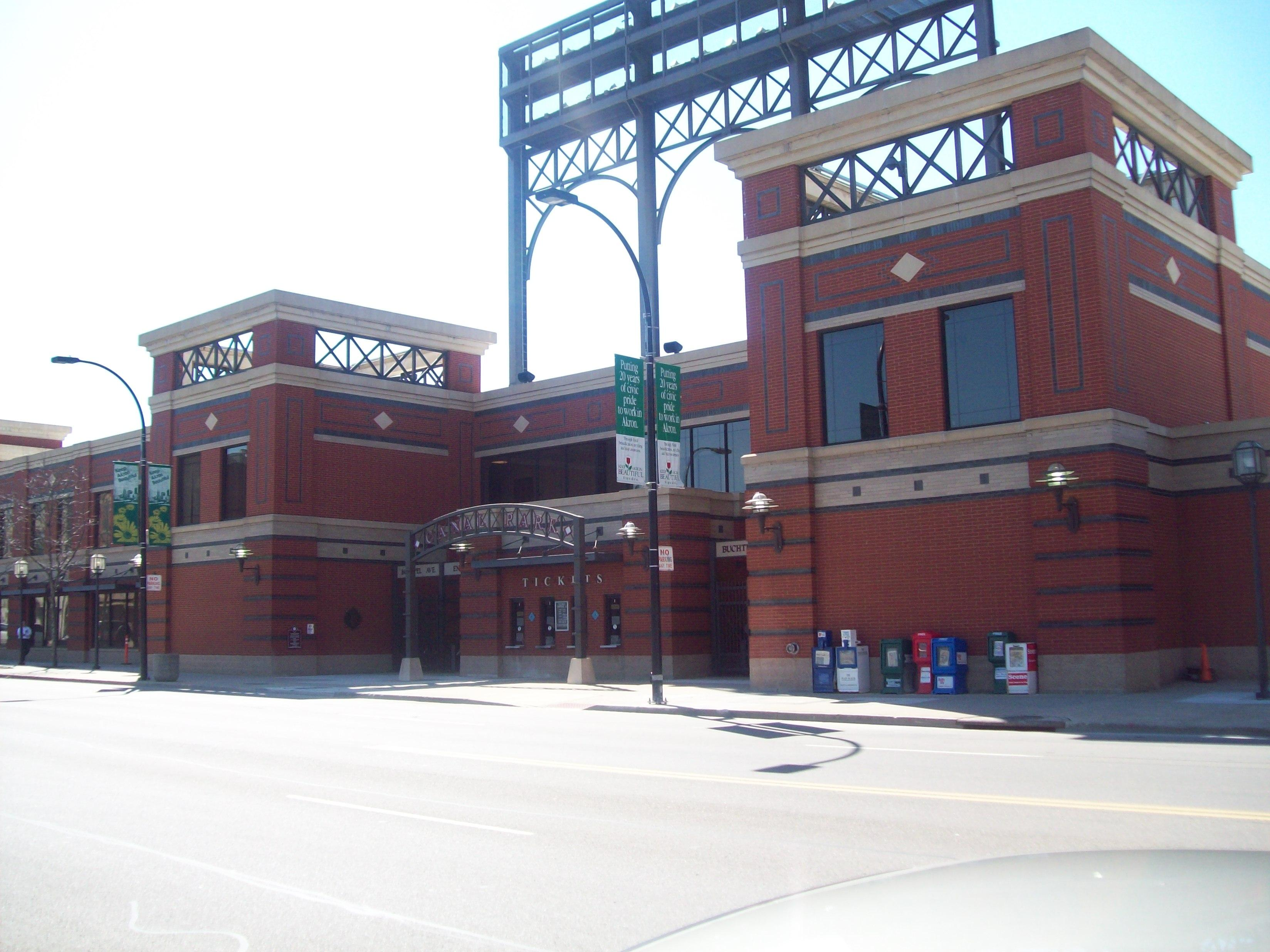 Canal Park